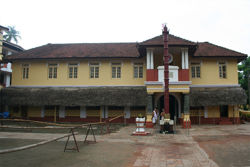 Chitrapur Saraswat Math main hall, Shirali, Karnataka